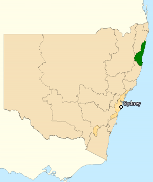 This image incorporates data that is: © Commonwealth of Australia (Australian Electoral Commission) 2009 Division of Cowper 2010